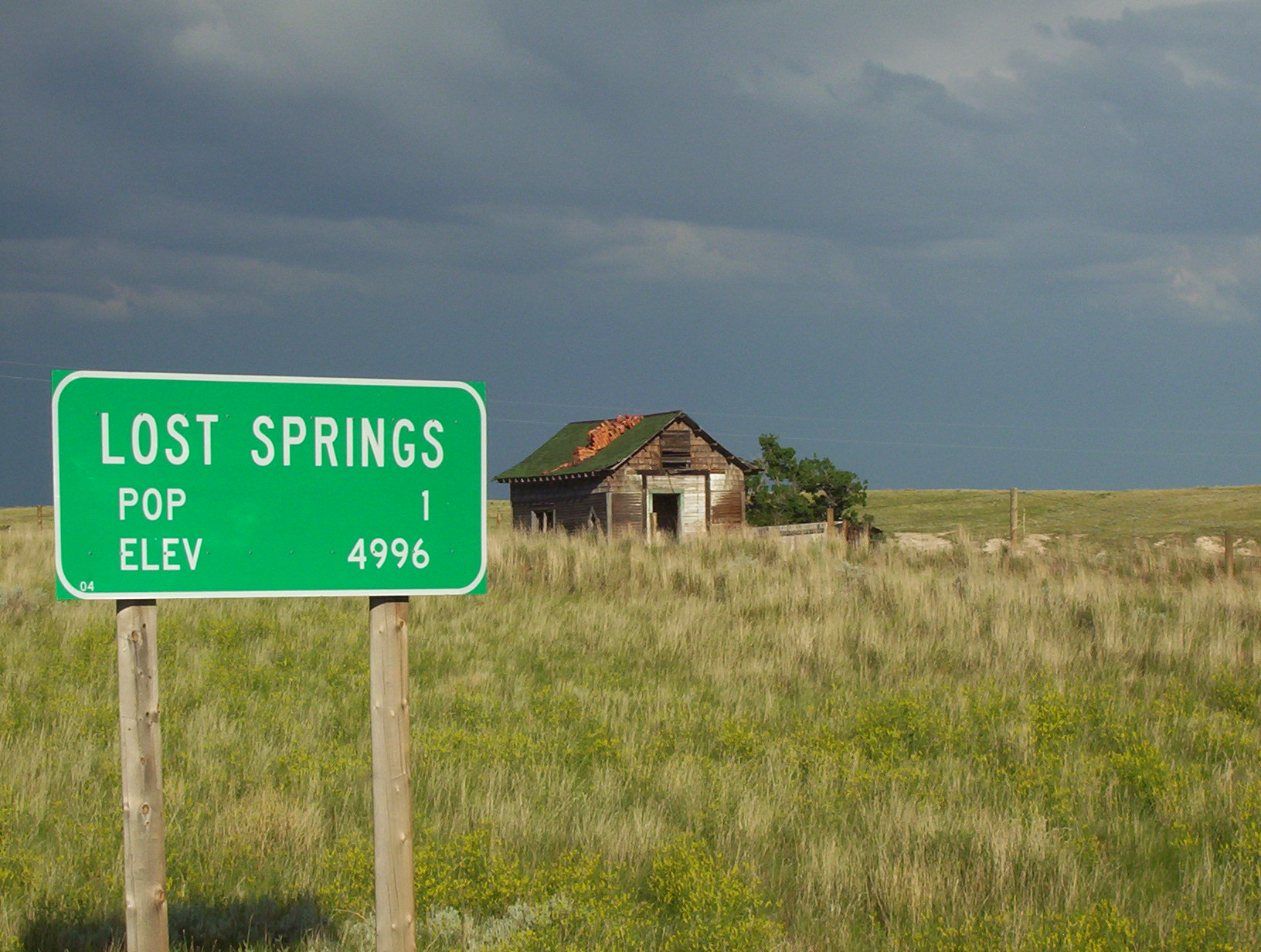 My own work (photograph) Photo of Lost Springs road sign on SR 20, wyoming.